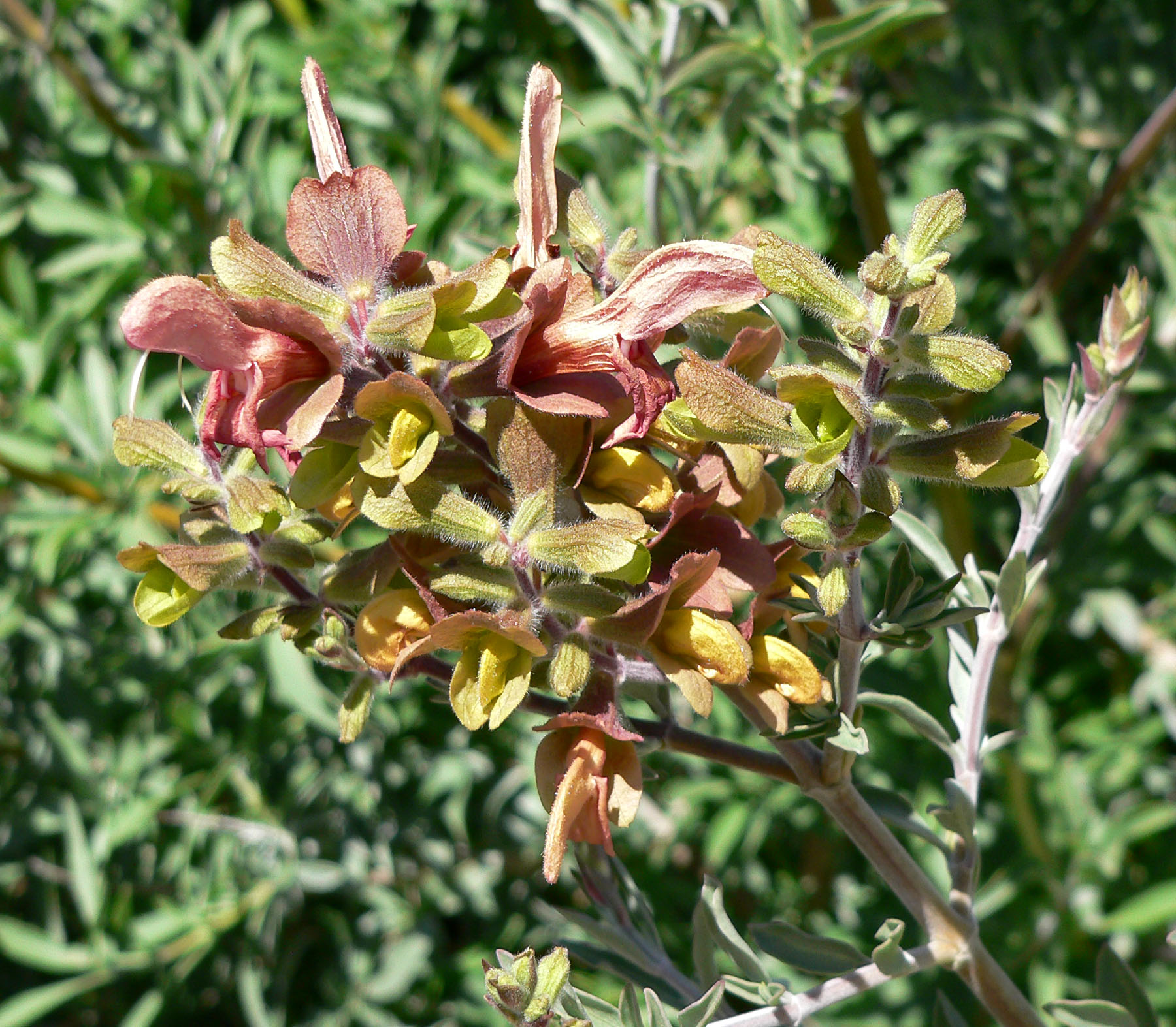 Salvia lanceolata at the University of California Botanical Garden, Berkeley, California